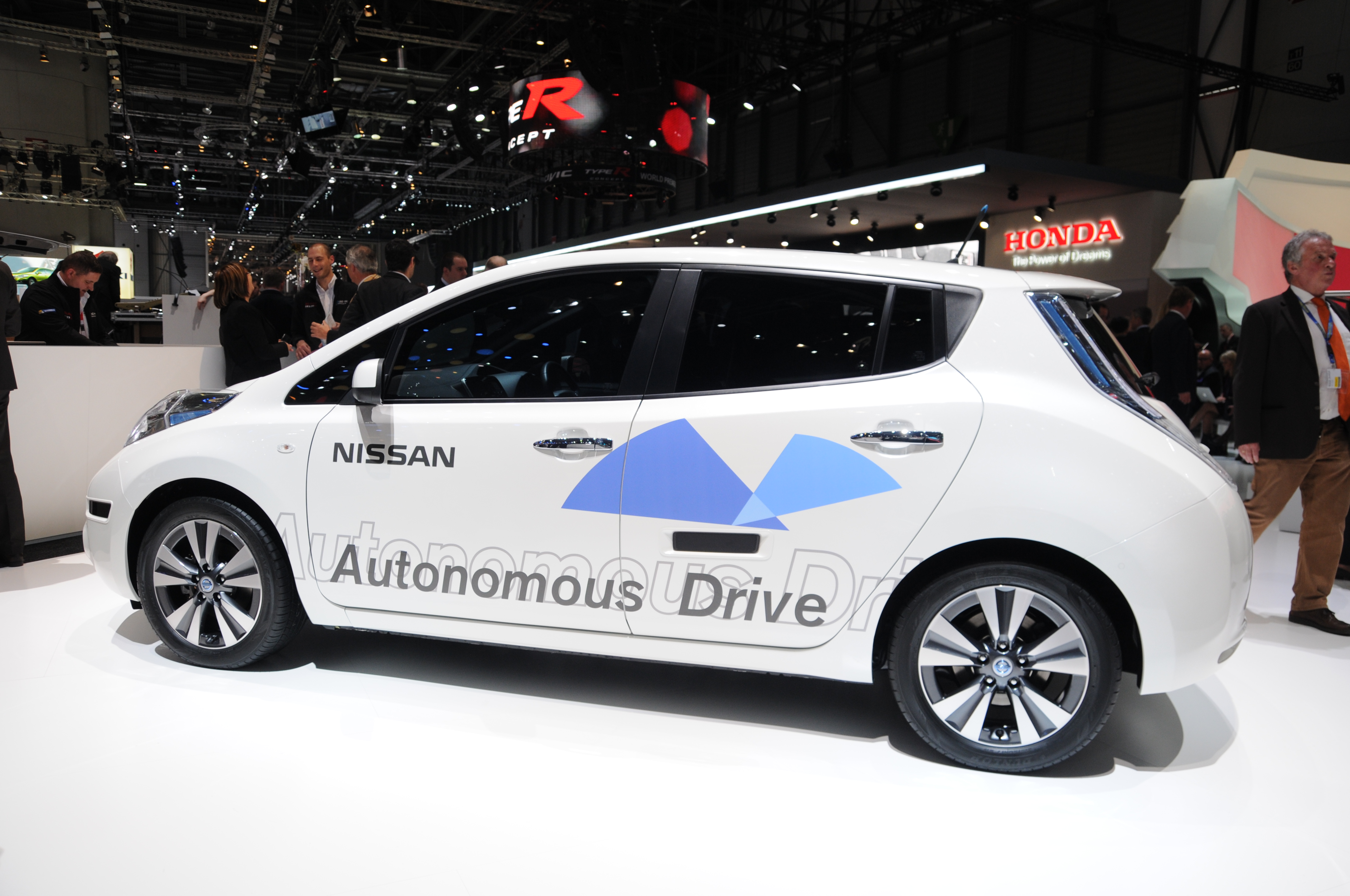 Nissan autonomous car prototype (using a Nissan Leaf electric car) exhibited at the Geneva Motor Show 2014 (photo taken on the first press day)